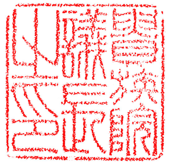 Imprint of President of the House of Peers of Japan